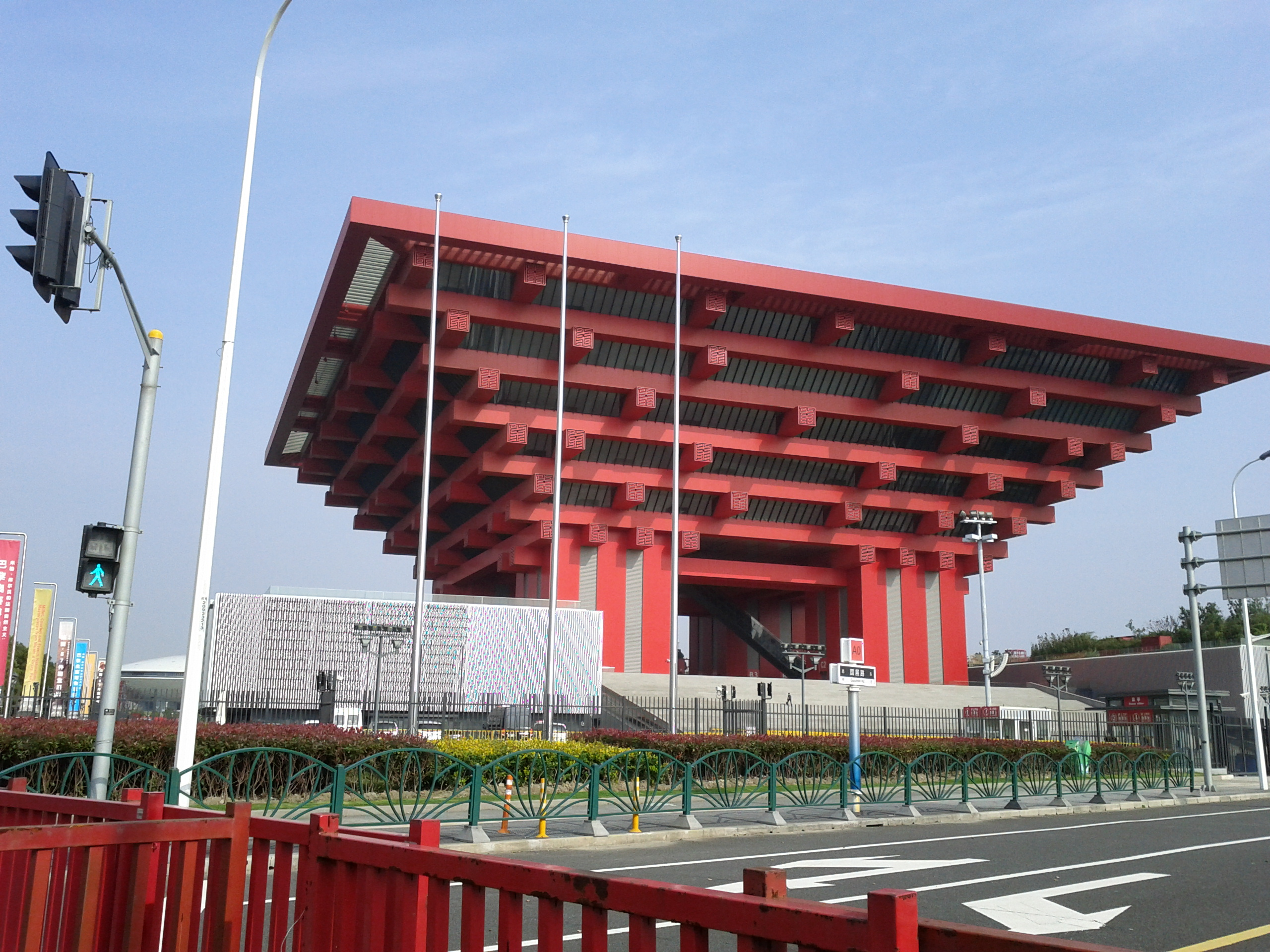 Lobby area with information desk. The museum building was formerly the China Pavilion at the Shanghai Expo.